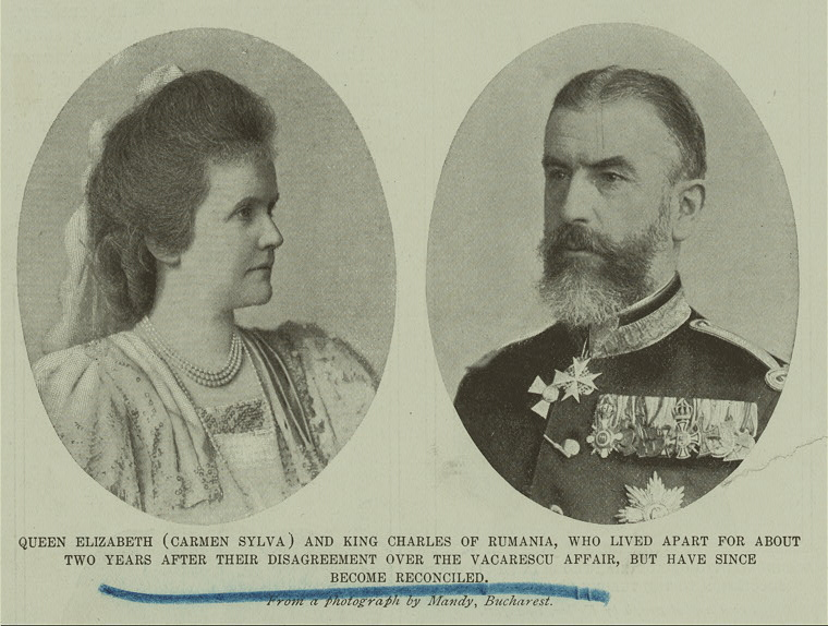 Queen Elisabeth of Romania and Carol I of Romania